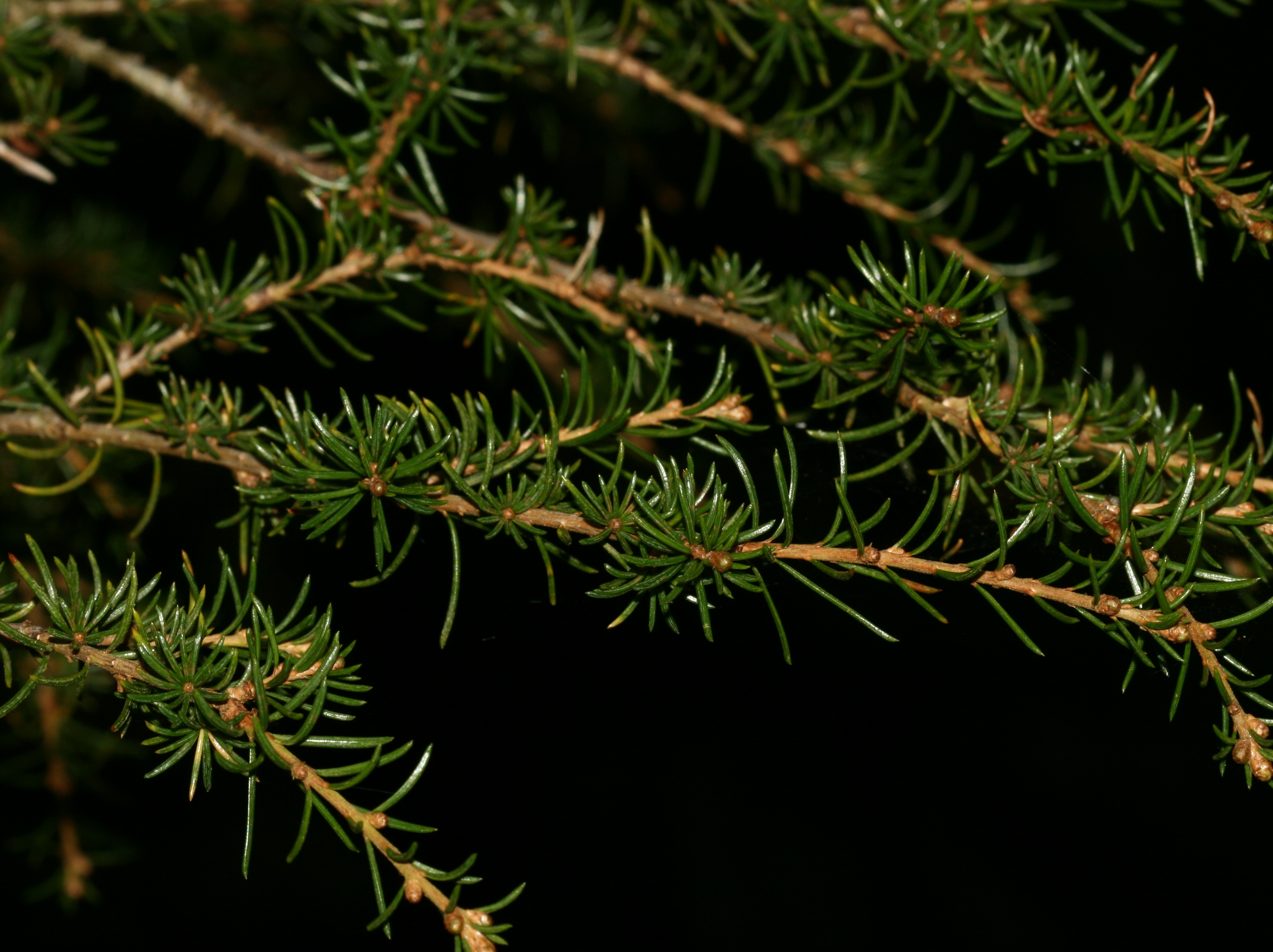 Dawyck Botanic Gardens, Peebles-shire, Scotland.